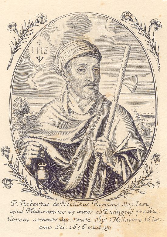 Robert de Nobili, missionnaire jésuite parmi les brahmes d'Inde du Sud